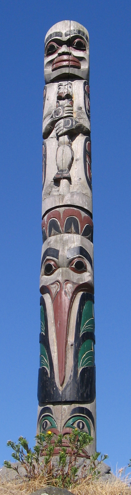 "Spirit of Lakwammen" totem pole in Songhees Point Park, Victoria, British Columbia